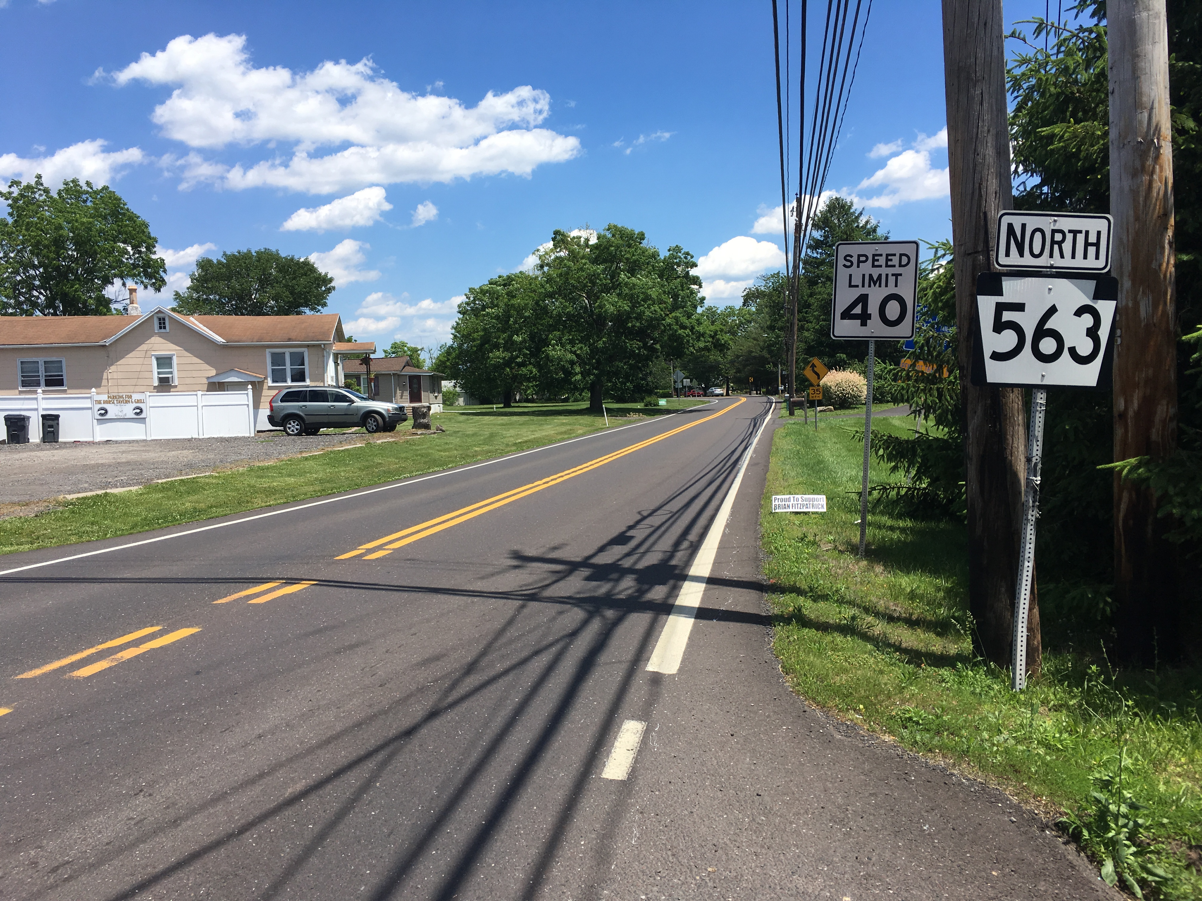 Northbound Pennsylvania Route 563 (Ridge Road) past the intersection with Old Bethlehem Pike in East Rockhill Township, Pennsylvania